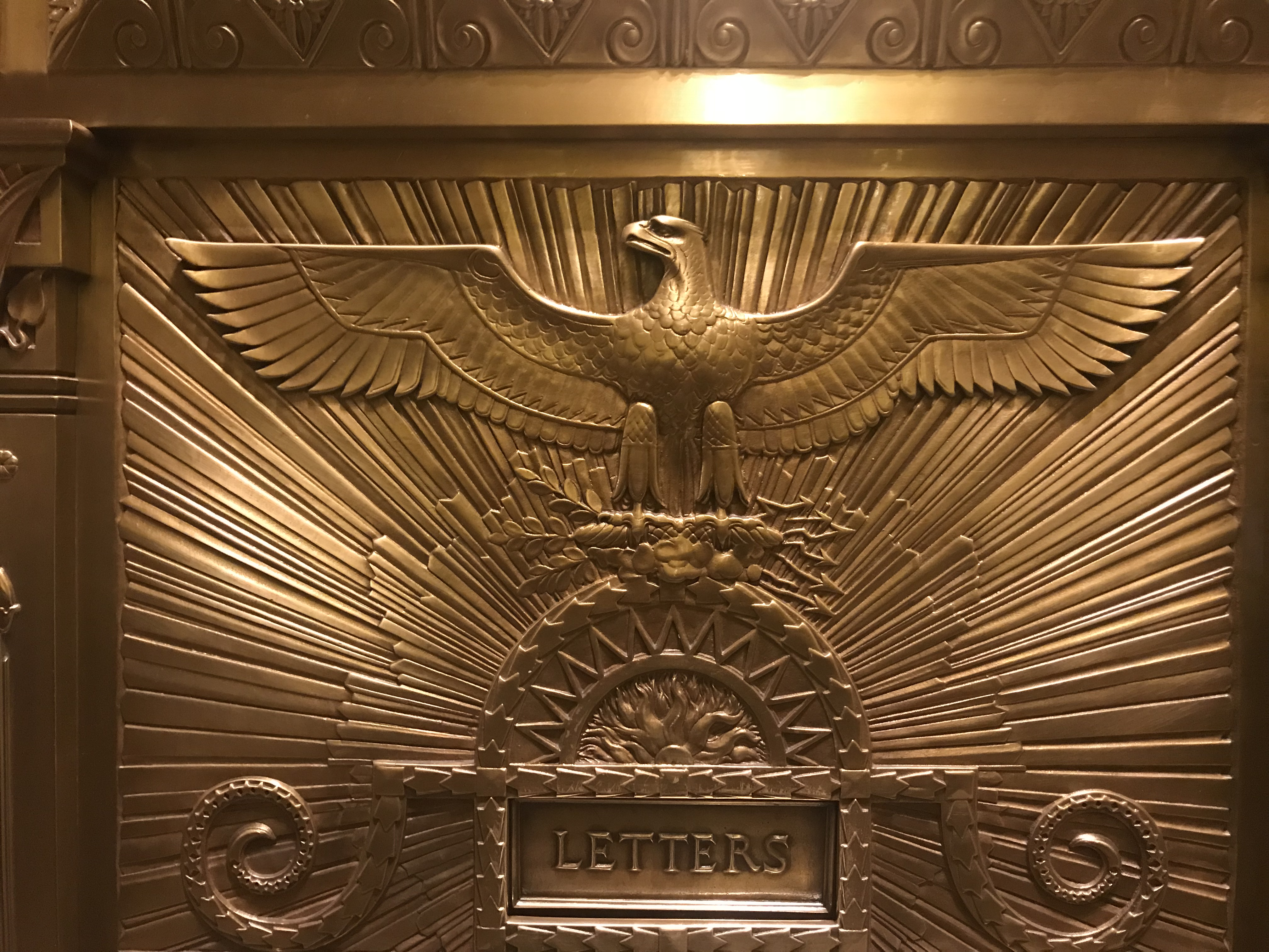 Gilt Mailbox in lobby of Fred F French Library